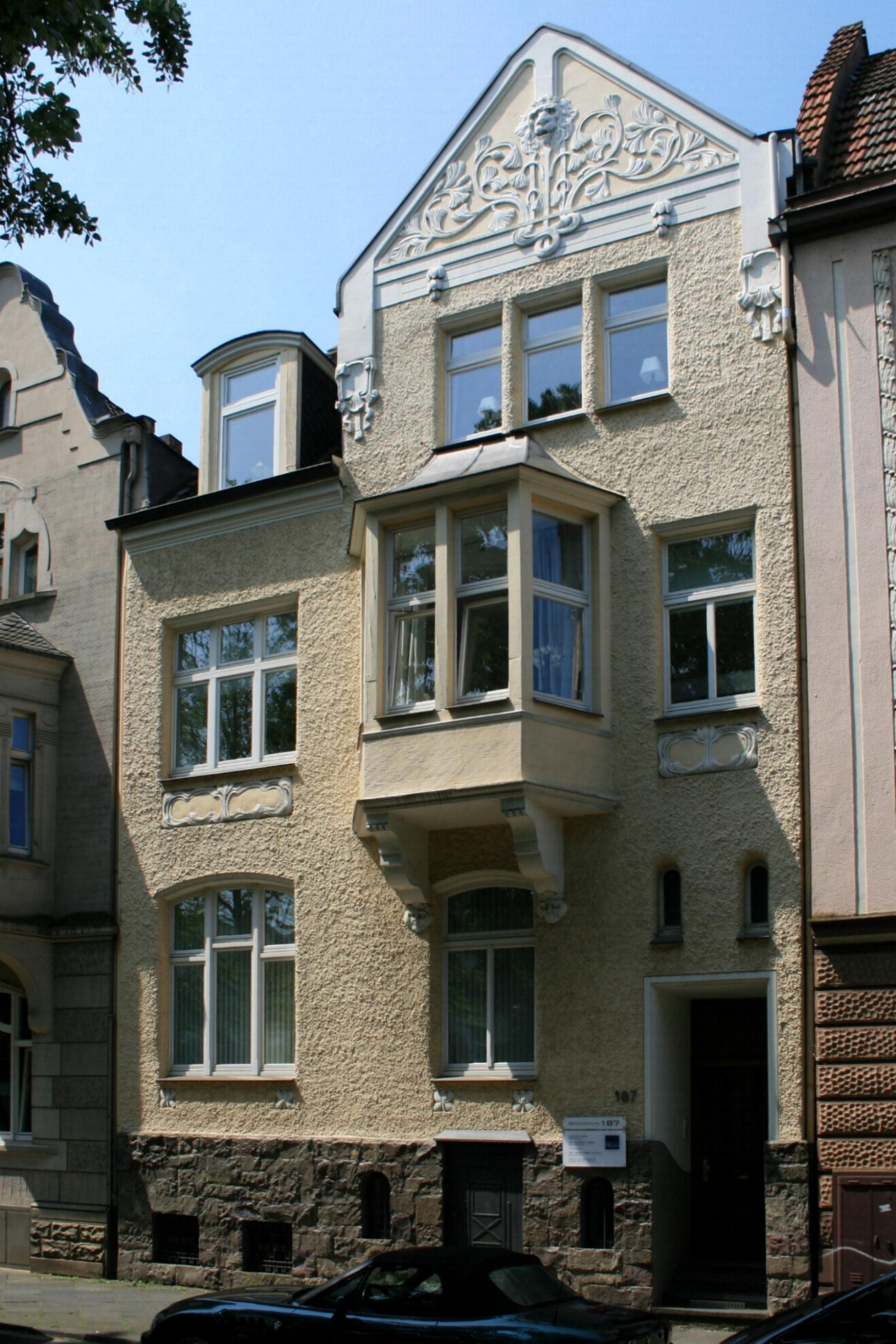 Cultural heritage monument No. B 099 in Mönchengladbach